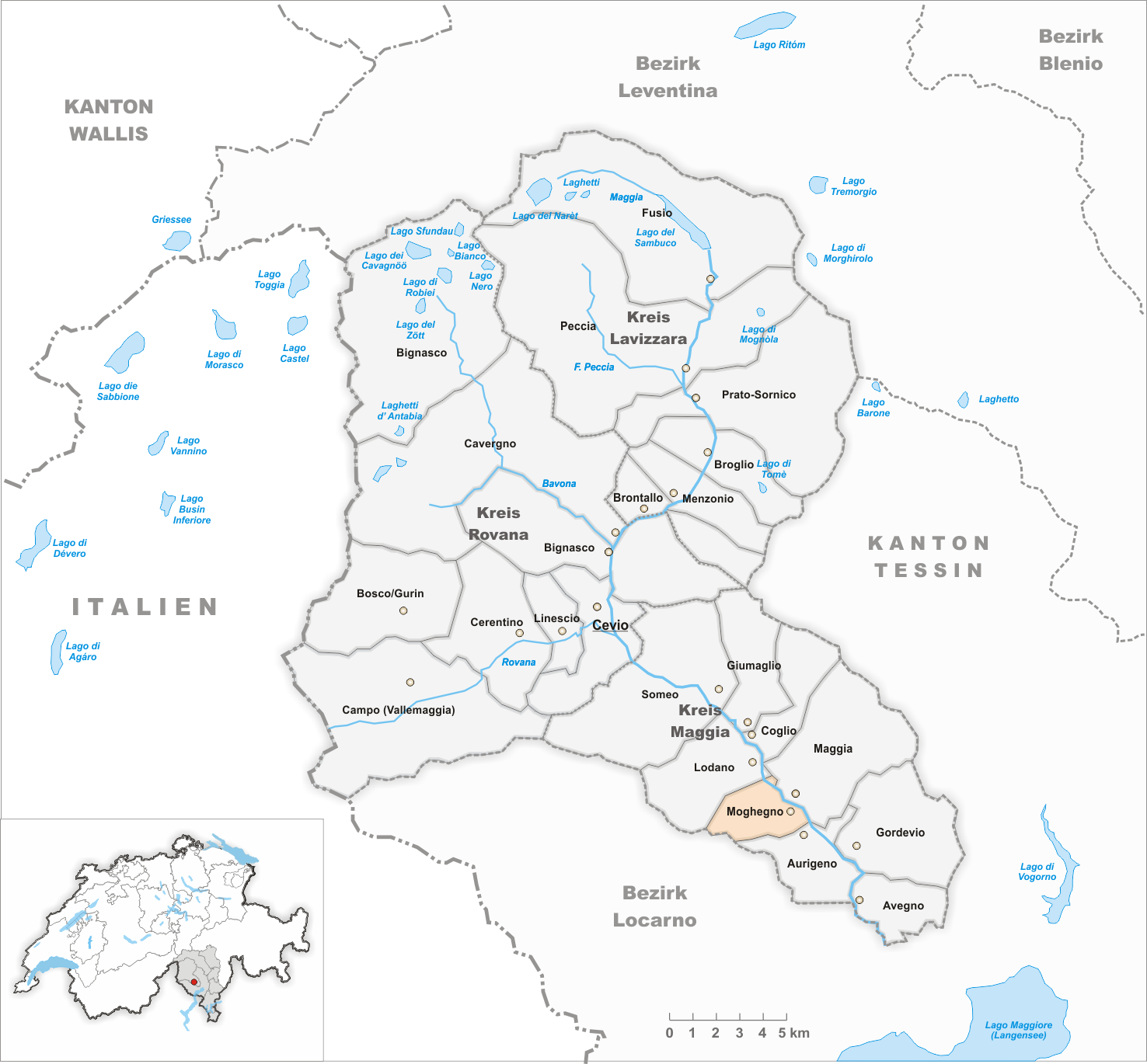 Municipality Moghegno